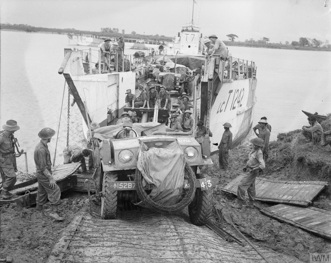 The British Army in Burma 1945 Men of the 15th Indian Corps help to bring ashore a 25-pdr field gun from a landing craft at Elephant Point, south of Rangoon at the beginning of operation 'Dracula', 2 May 1945.